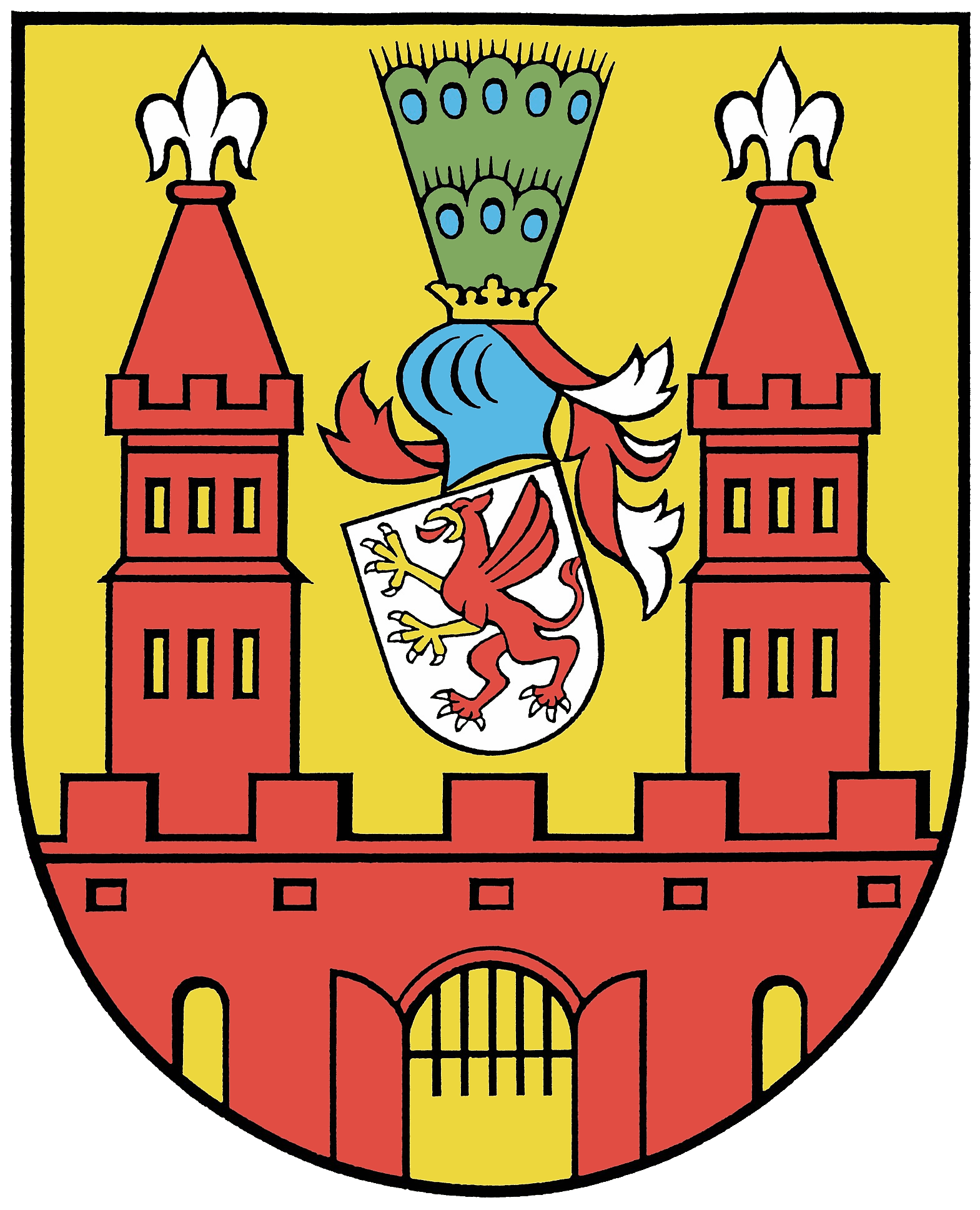 Coat of arms of Demmin